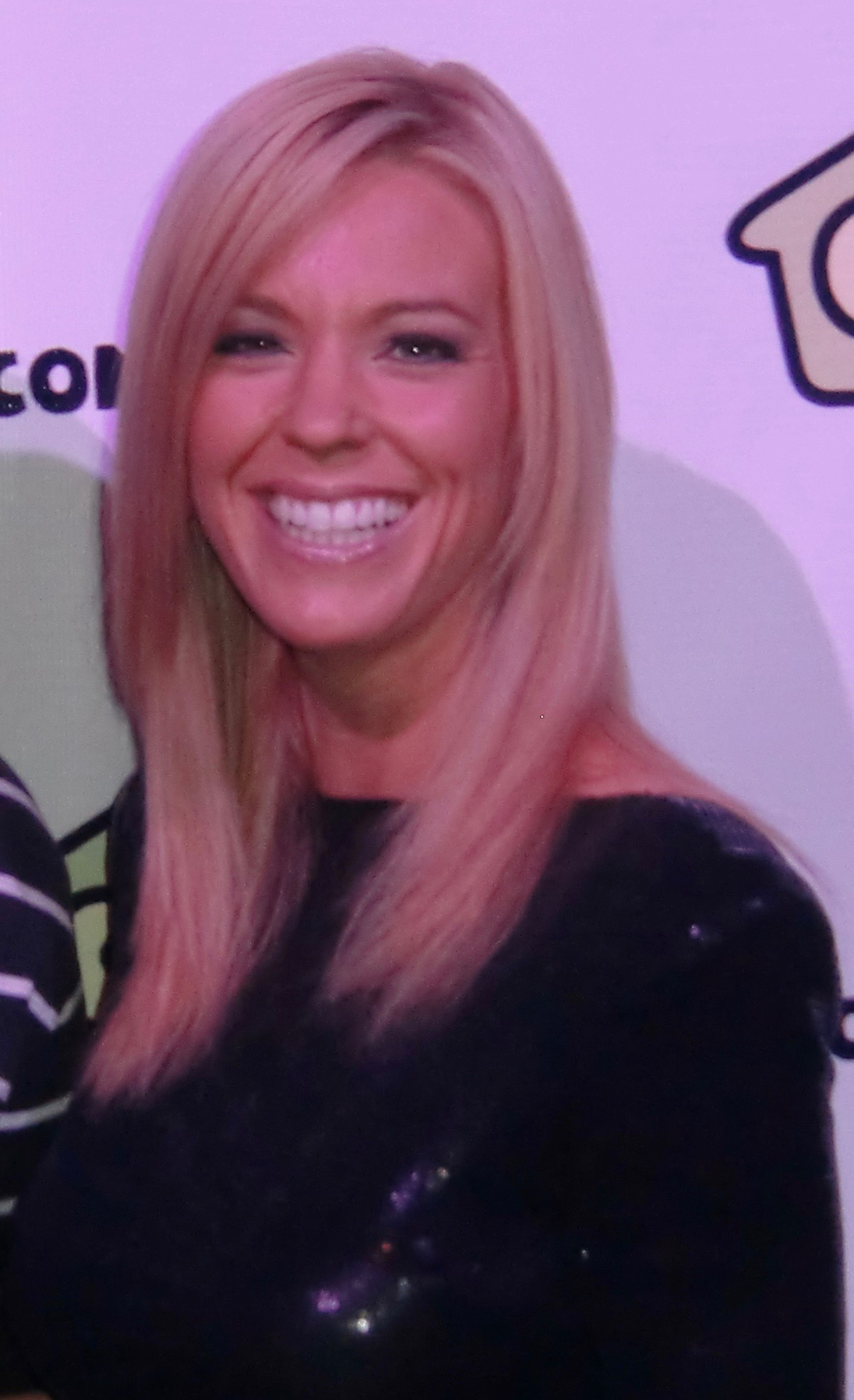 Kate Gosselin in 2012. Cropped from Flickr original.